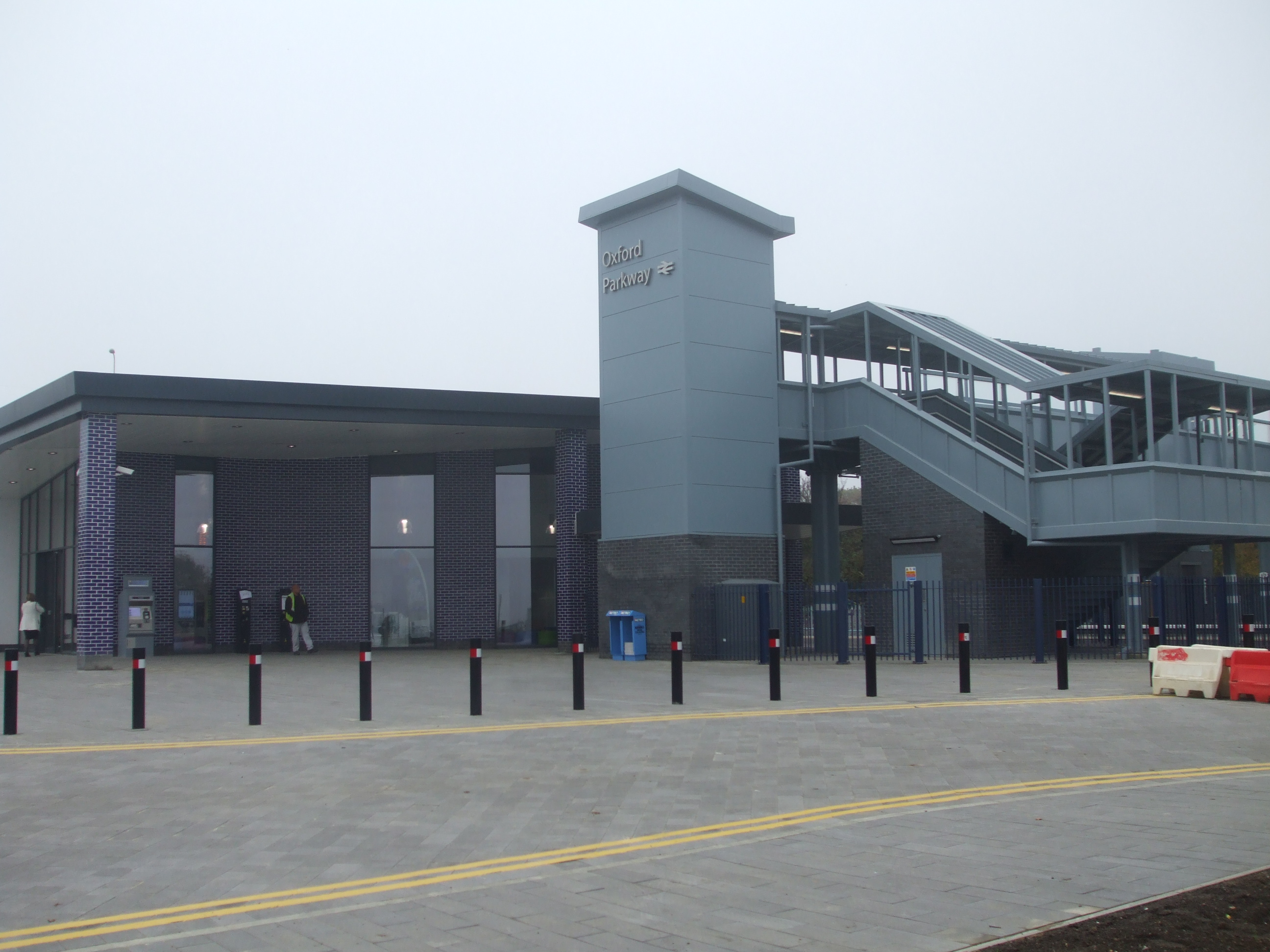 Oxford Parkway station building